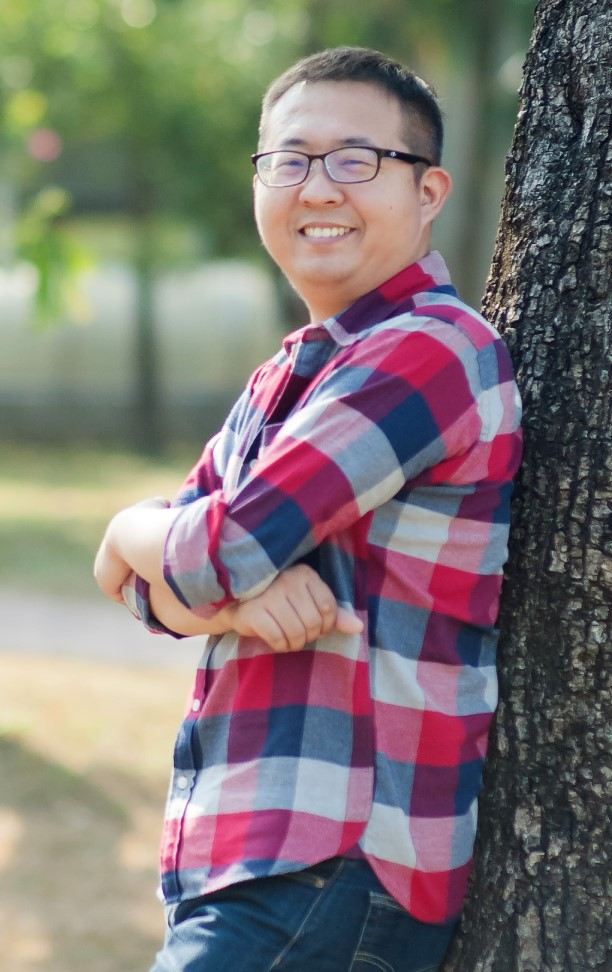 Photos of Ni, Ching-tai